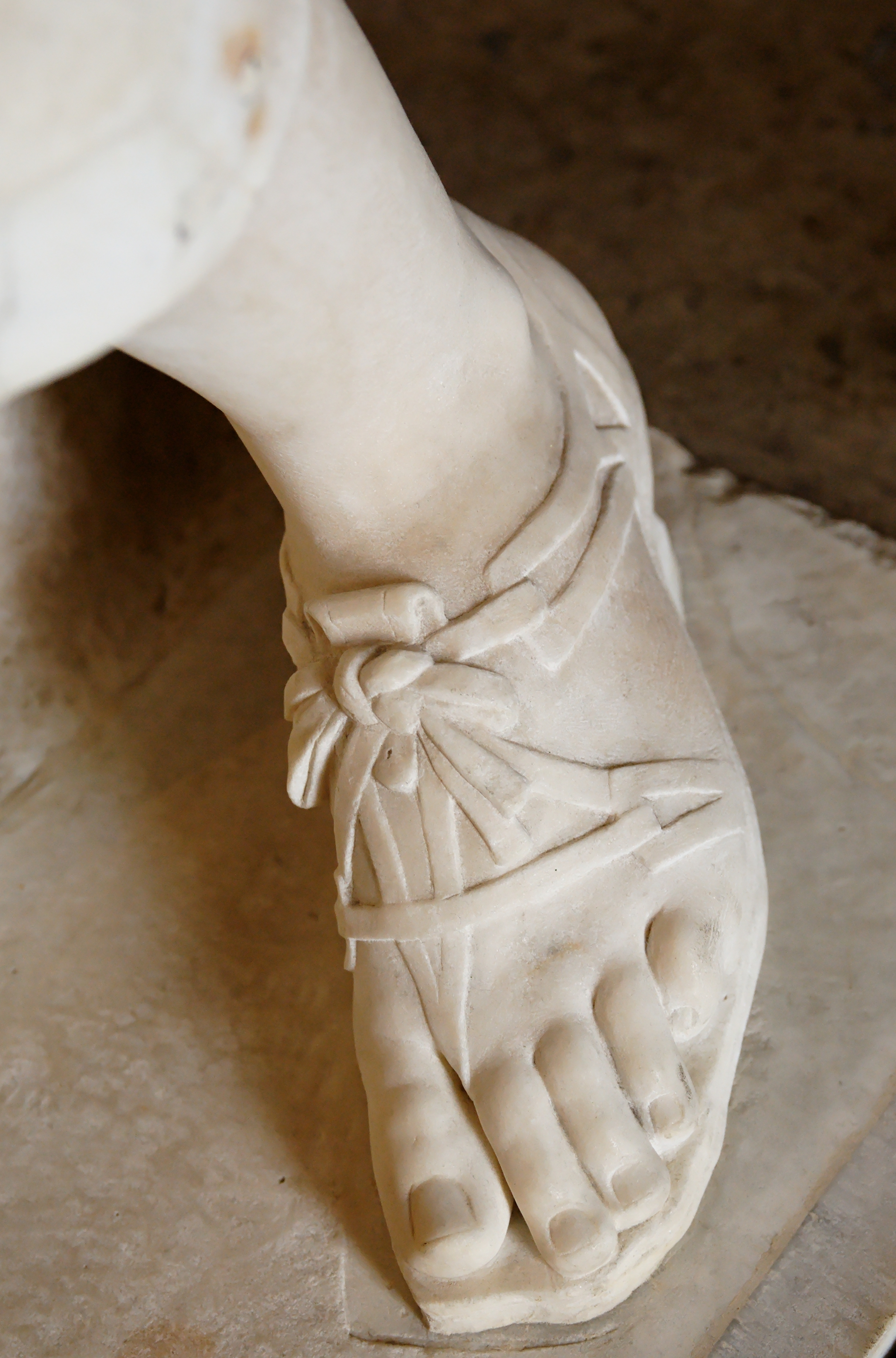 So-called Artemis of Gabii, design of the footwear. Marble, Roman copy of the reign of Tiberius (14-37 CE) after a Greek original traditionnally attributed to Praxiteles. Found in 1792 by Gavin Hamilton at Gabii, Italy.